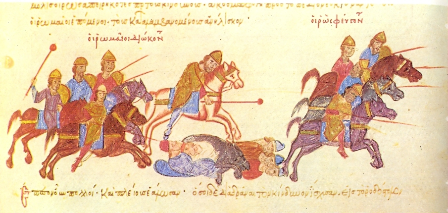 Byzantine-Rus conflict during Sviatoslav's campaign in Bulgaria